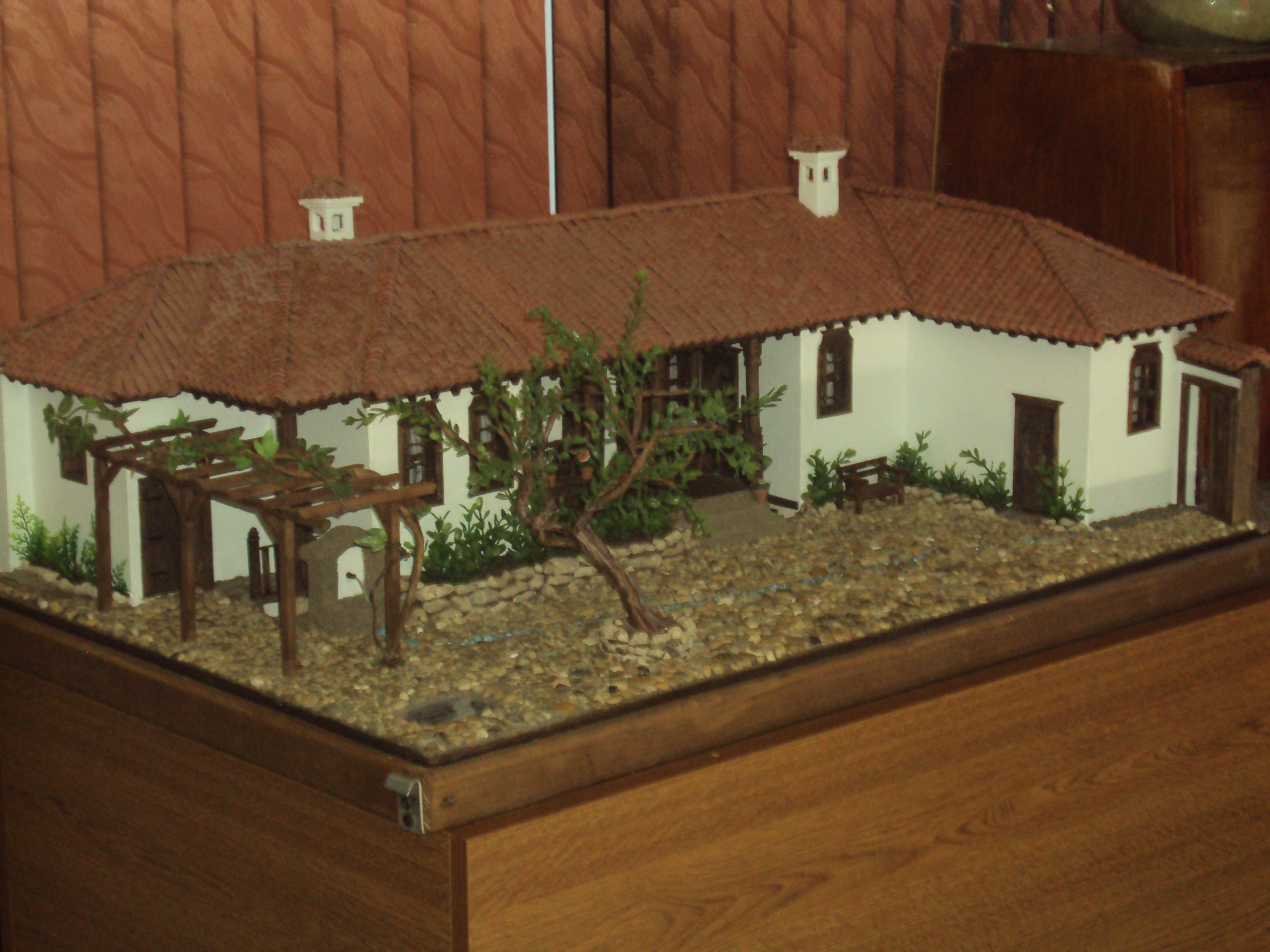 The house-museum of Ivan Vazov in town of Sopot